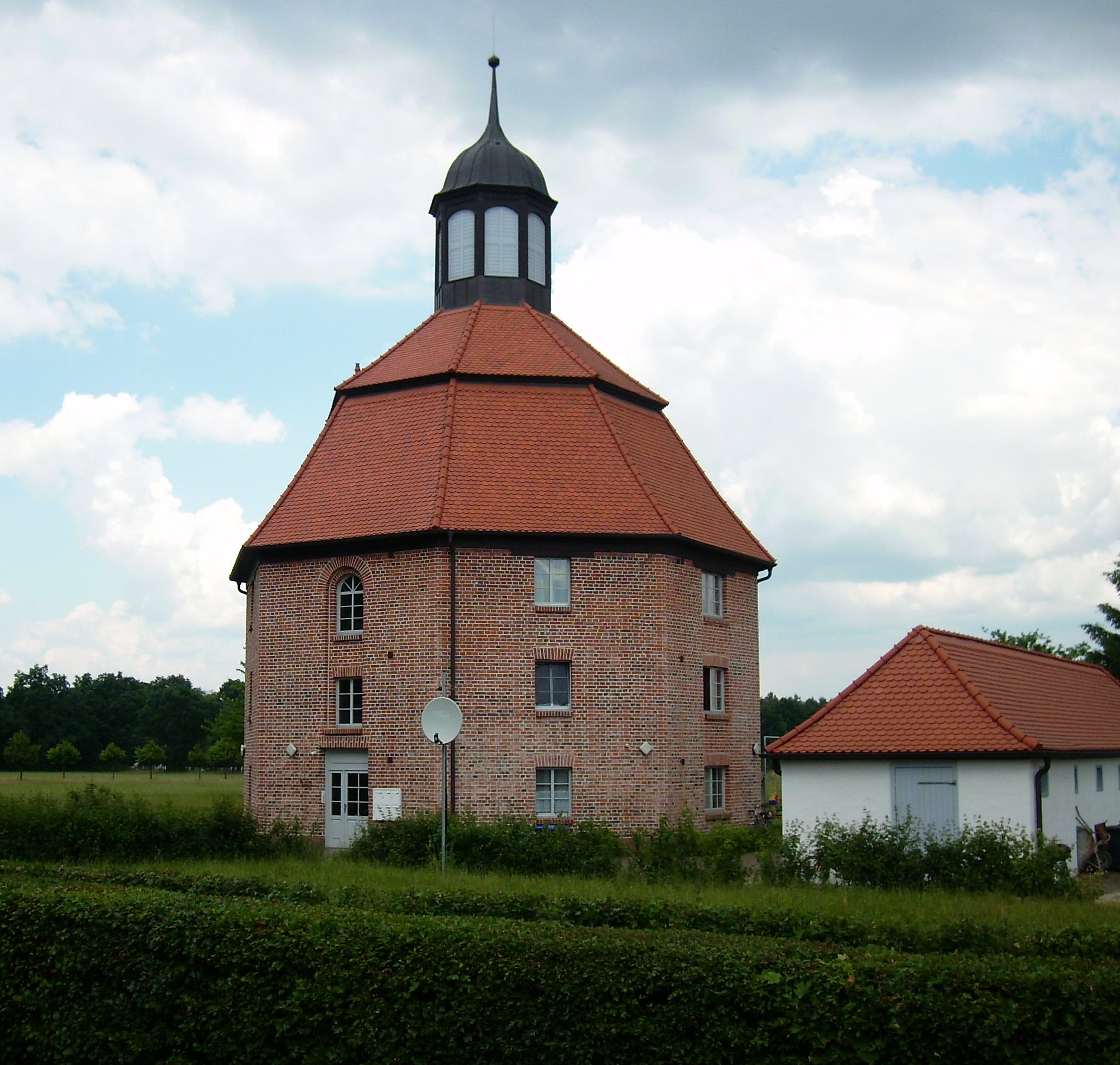 The former Lutheran church of Oranienbaum (Oranienbaum-Wörlitz, Wittenberg district, Saxony-Anhalt), also called Little Church, nowadays a dwelling-house